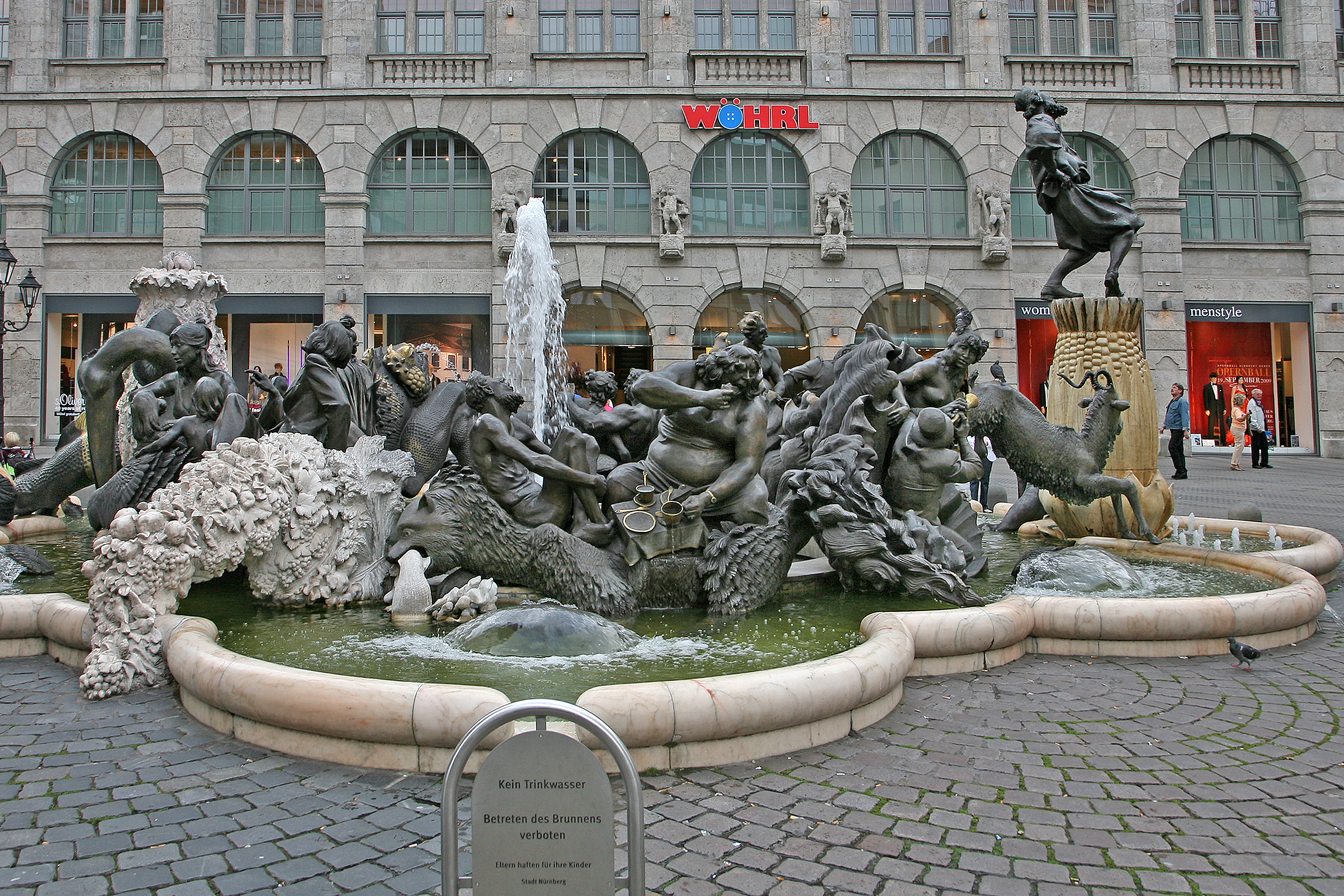 Hans Sachs-Brunnen (also called Ehekarussell), a monumental fountain architecture in Nuremberg. The design of the fountain refers to a poem by Sachs "Joy and suffering of marriage".